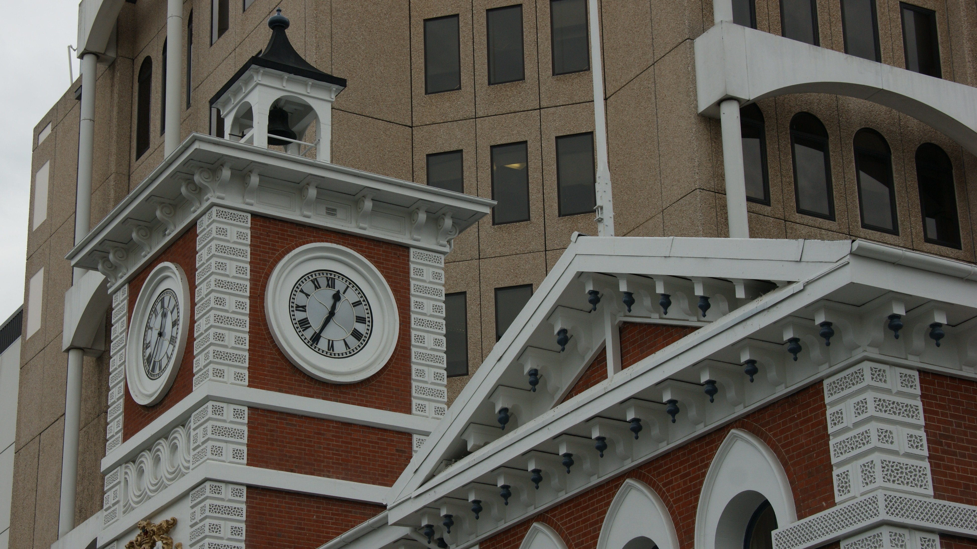 Clock tower of the former Chief Post Office.